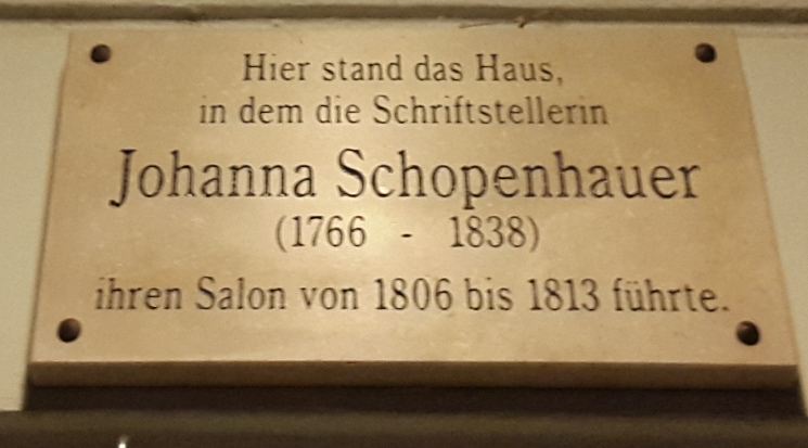 Plaque for the literary salon by Johanna Schopenhauer